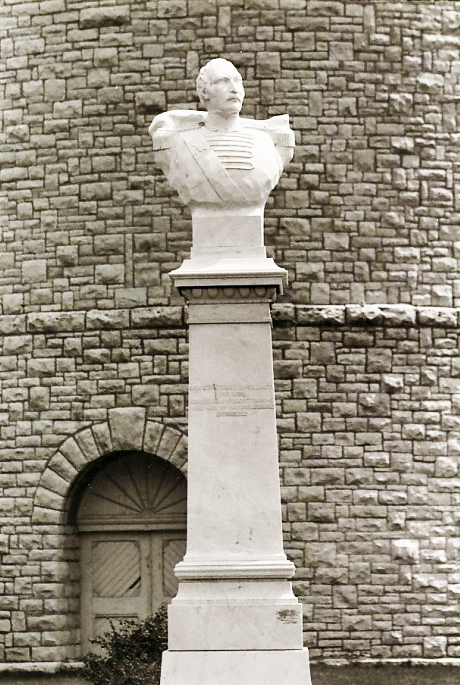 Cross is just down on the left from the bust.